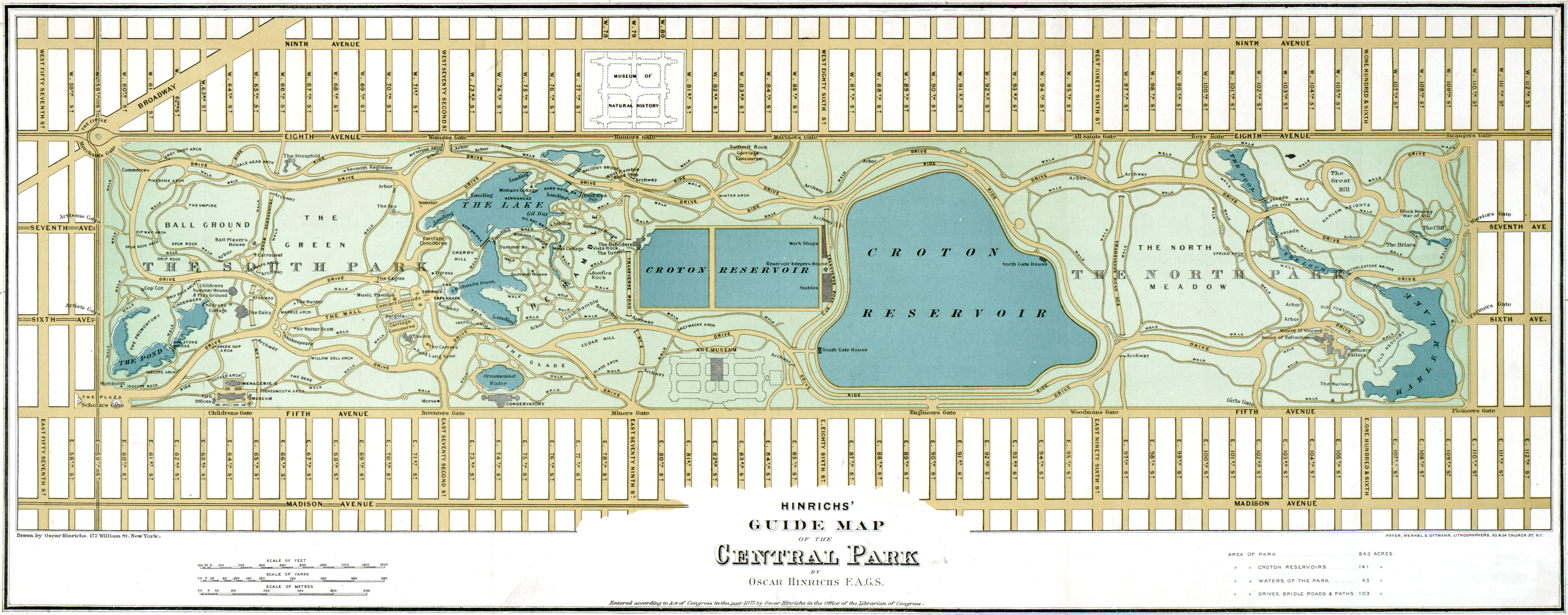 Map of Central Park in New York City, from 1875. Scale is 1:7,500; north is to the top right.